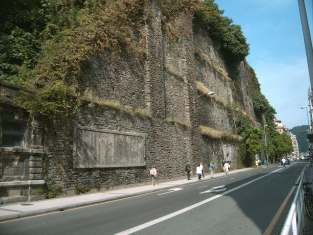 San Bartolome in Donostia